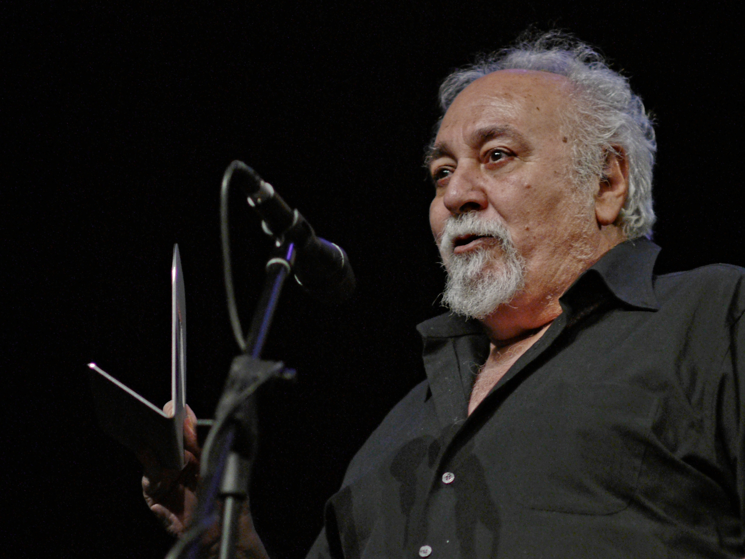 Late valencian singer-songwriter Pep Laguarda receiving the Ovidi award for best pop record in 2013.